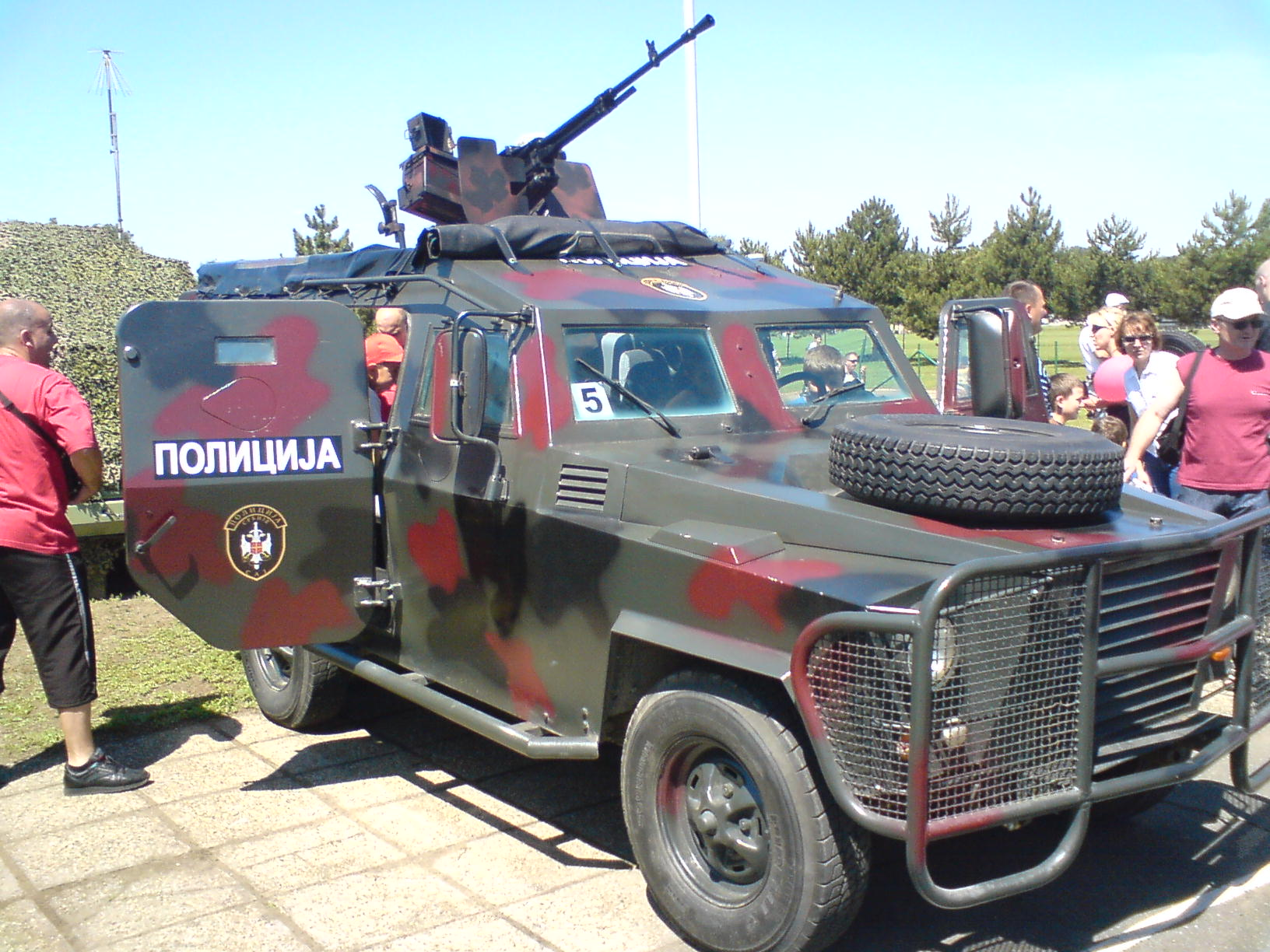 SAJ Land Rover